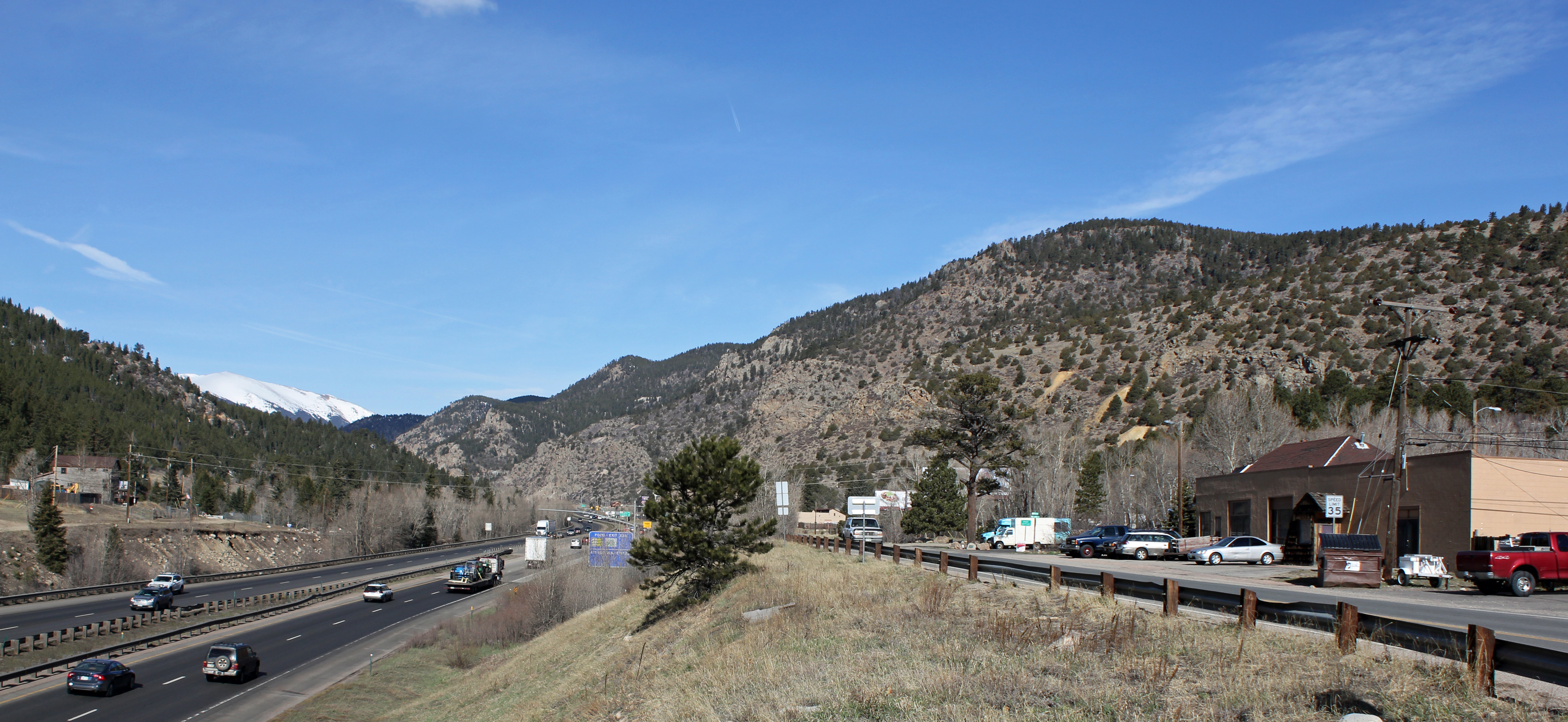 A view of Dumont, Colorado. The freeway is Interstate-70. The road on the right is Clear Creek County Road 308.